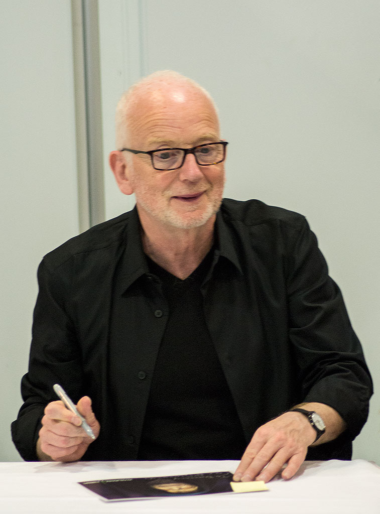 Scottish actor Ian McDiarmid at the Star Wars Celebration Europe, July 2013, Essen, Germany